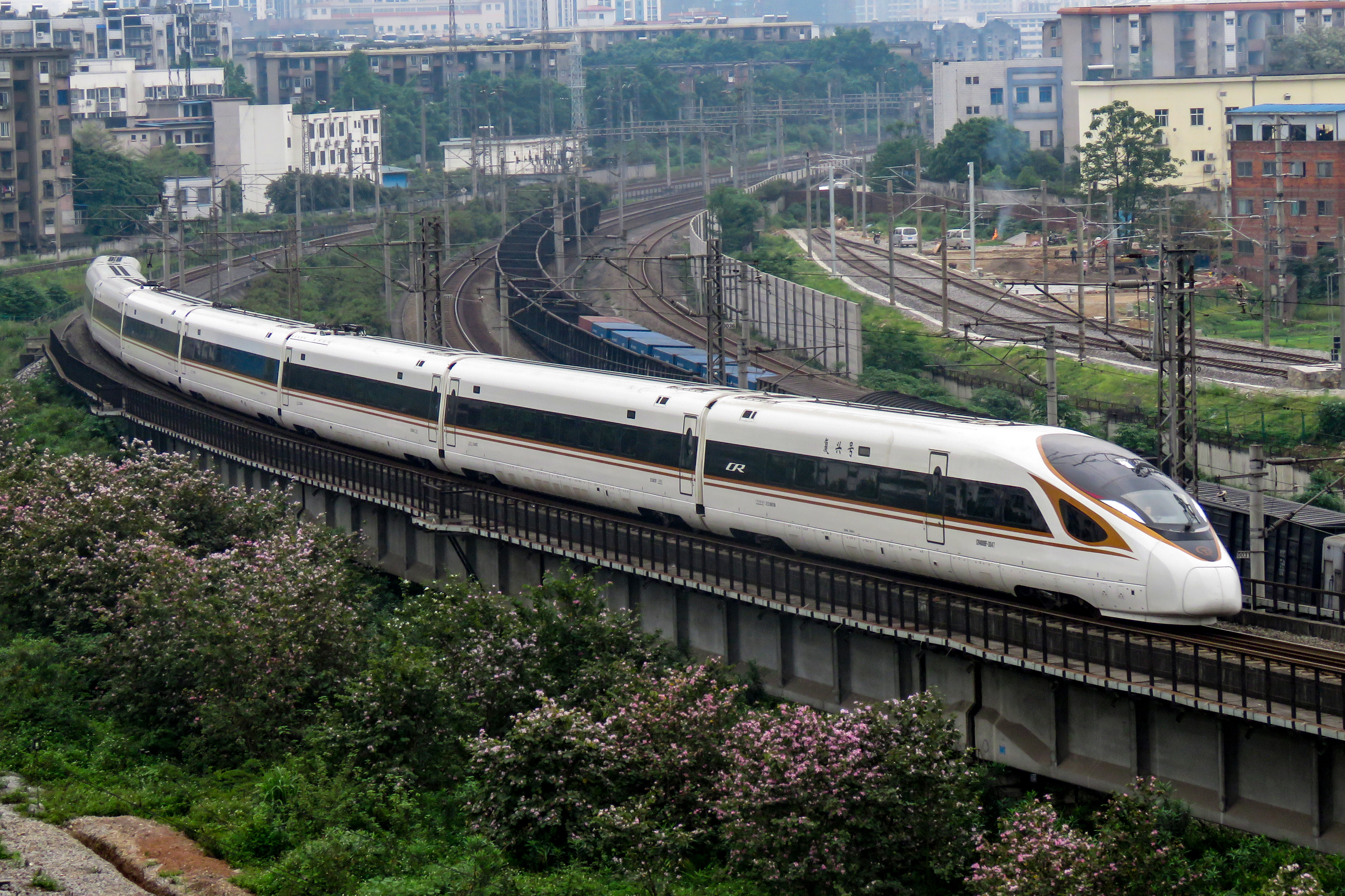 G1504 from Nanning East to Nanjing South. Using CR400BF from February 2018, this train arrives at its terminus at 22:10 after 25 stops.